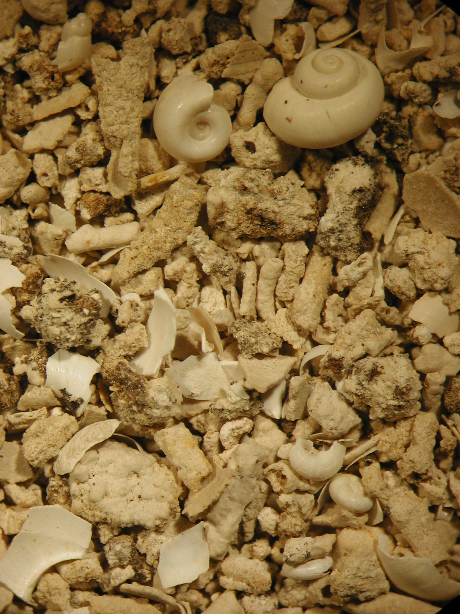 Washed residu from freshwater tufa deposit in the Belvédère pit near Maastricht, age: Belvédère Interglacial (Late Middle Pleistocene); Amorphous calcium carbonate concretions, incrustrated stems of Characeae; fresh water shells of Valvata piscinalis, Valvata cristata, Planorbis carinatus, Lymnaea stagnalis (juvenile shell), and land snails Trochulus hispidus and Arianta arbustorum